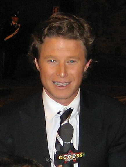 William Hall „Billy“ Bush covering the wedding of Tom Cruise and Katie Holmes in Bracciano, Italy.